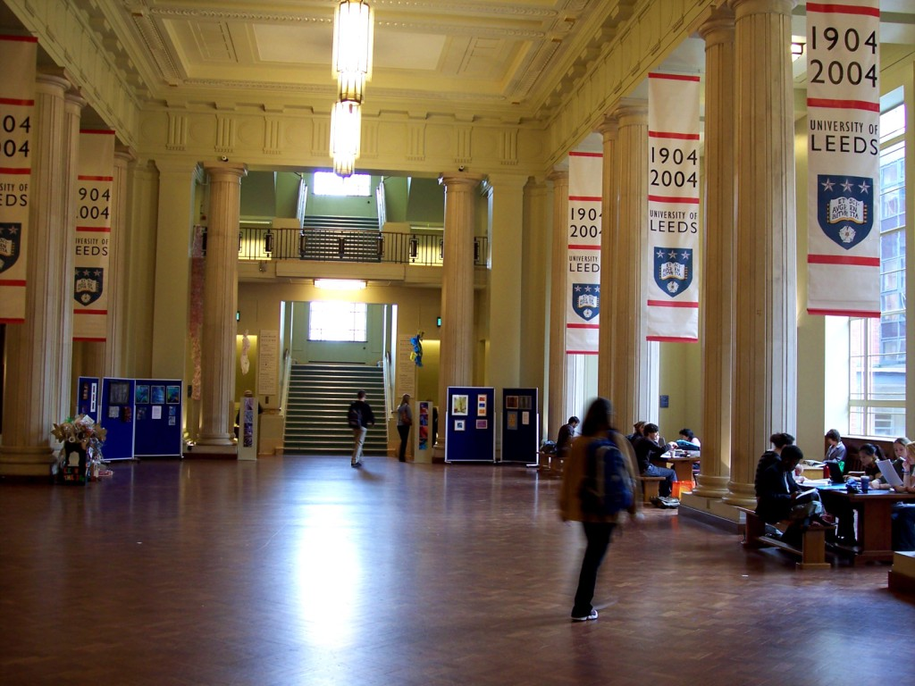 University of Leeds: The foyer of Parkinson Building, with banners celebrating the university's centenary in 2004